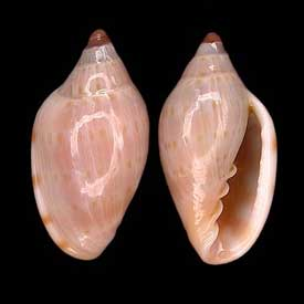 Species: Marginella caterinae Bozzetti & G.Raybaudi, 1991 data: by deep water trawlers off Hafun-Bay-north. Somalia